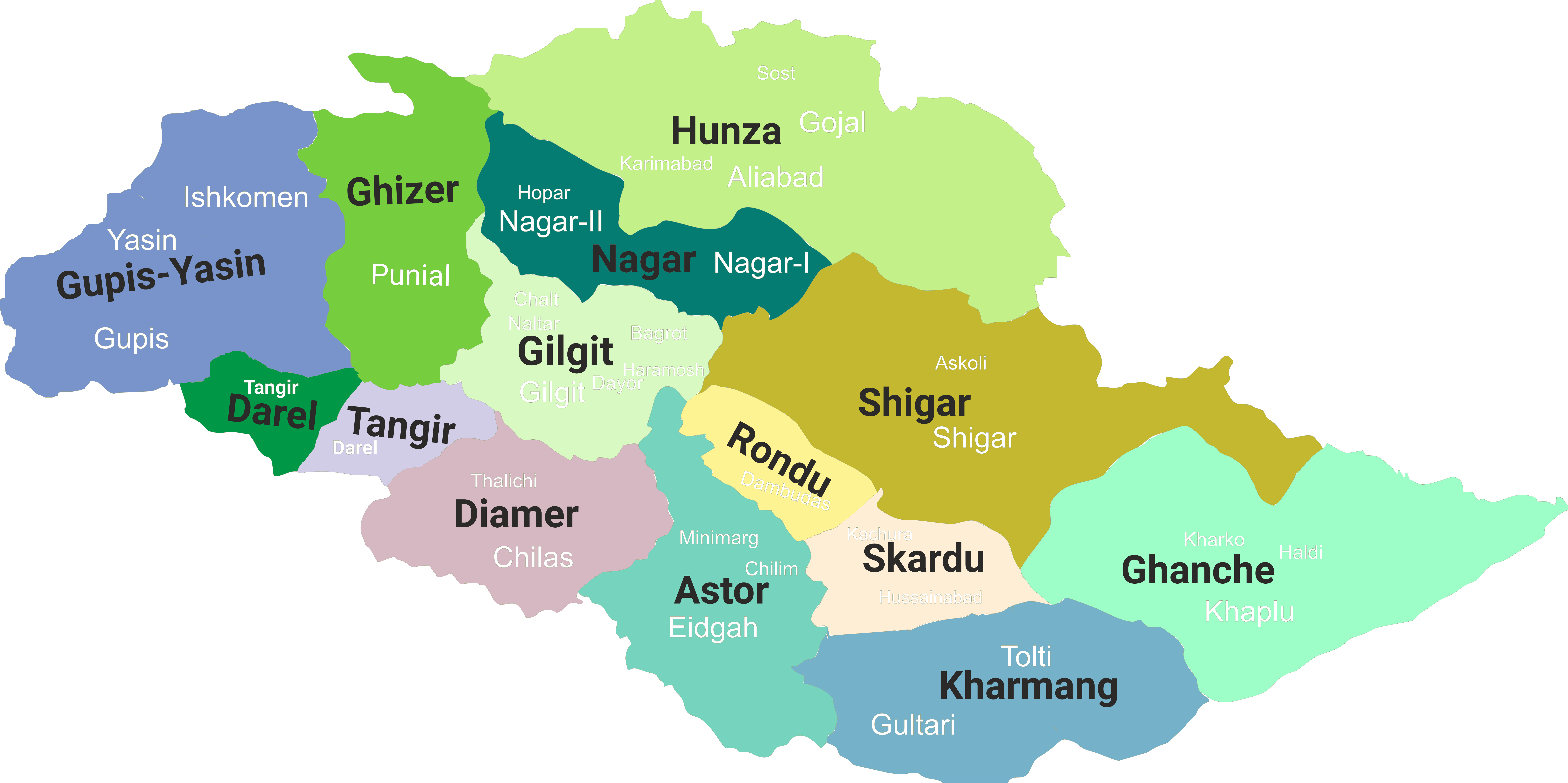 Gilgit-Baltistan map with tehsils labelled